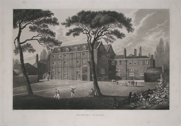 View of Hackney School (formerly Newcome's School.